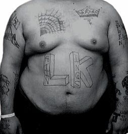 A photo of a Latin Kings member displaying several stereotypical tattoos, from the book "Gangs: Awareness - Prevention - Intervention" by Will County state's attorney James W. Glasgow. The document says that it was "developed under a grant from the U.S. Departments of Health and Human Services, Justice and Education", which under the new rules should require public access; in any case it is being distributed free to schools and parents under federal funding.[1] The photo itself might be a Fair Use of the tattooist's work, if this rises to the level of artistic content meriting copyright protection - but the government apparently didn't worry about the copyright, so I'm not sure we should either. But at least for now I've put it here on Wikipedia due to this lingering doubt. Note that due to its being featured in a well known gang guide it is notable enough to stand a Fair Use rationale, if required. The "LK"/"Latin Kings" "ALKN" (Almighty Latin Kings Nation) and 3 point/5 point crown motifs are all plainly visible. . I think. (see above) Wnt (talk) 03:11, 24 June 2011 (UTC)